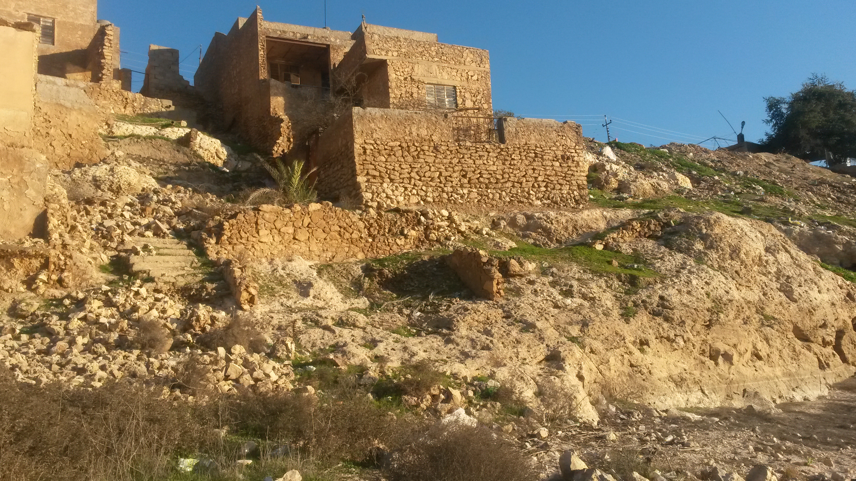 Rawa (Iraq)